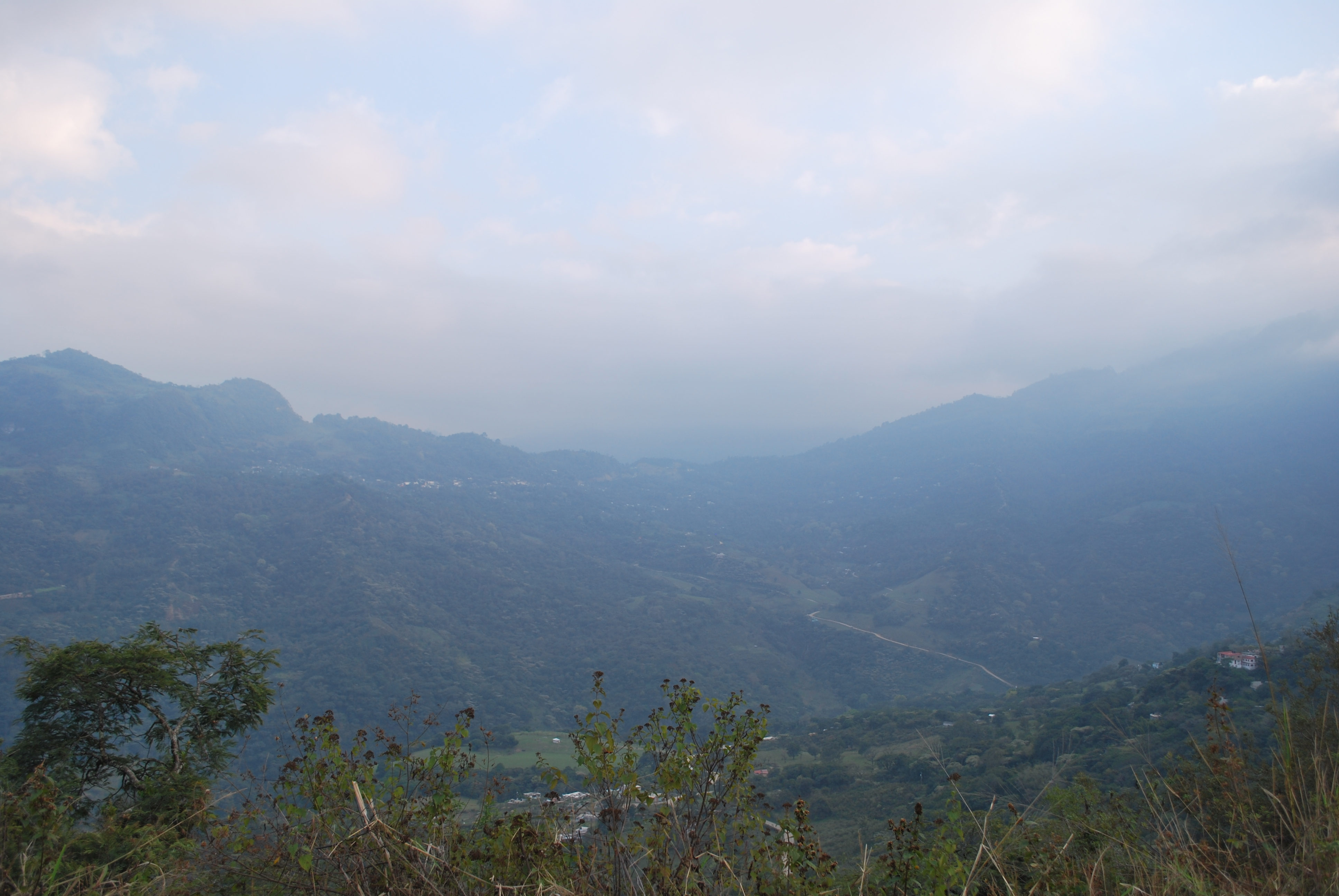 View of the Pahuatlán Valley and the Sierra Norte de Puebla, Puebla state, México.